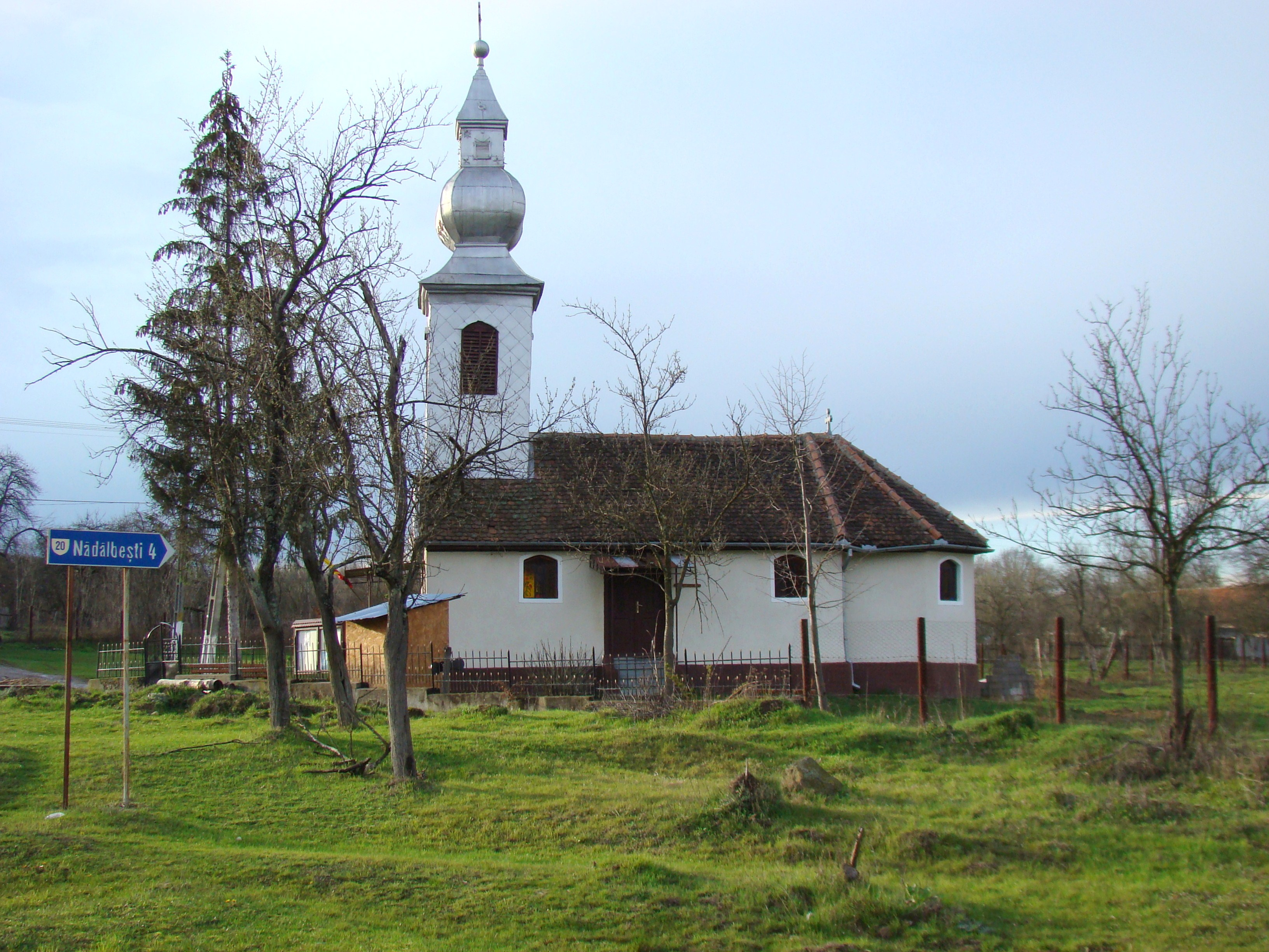 Minead, Arad county, Romania